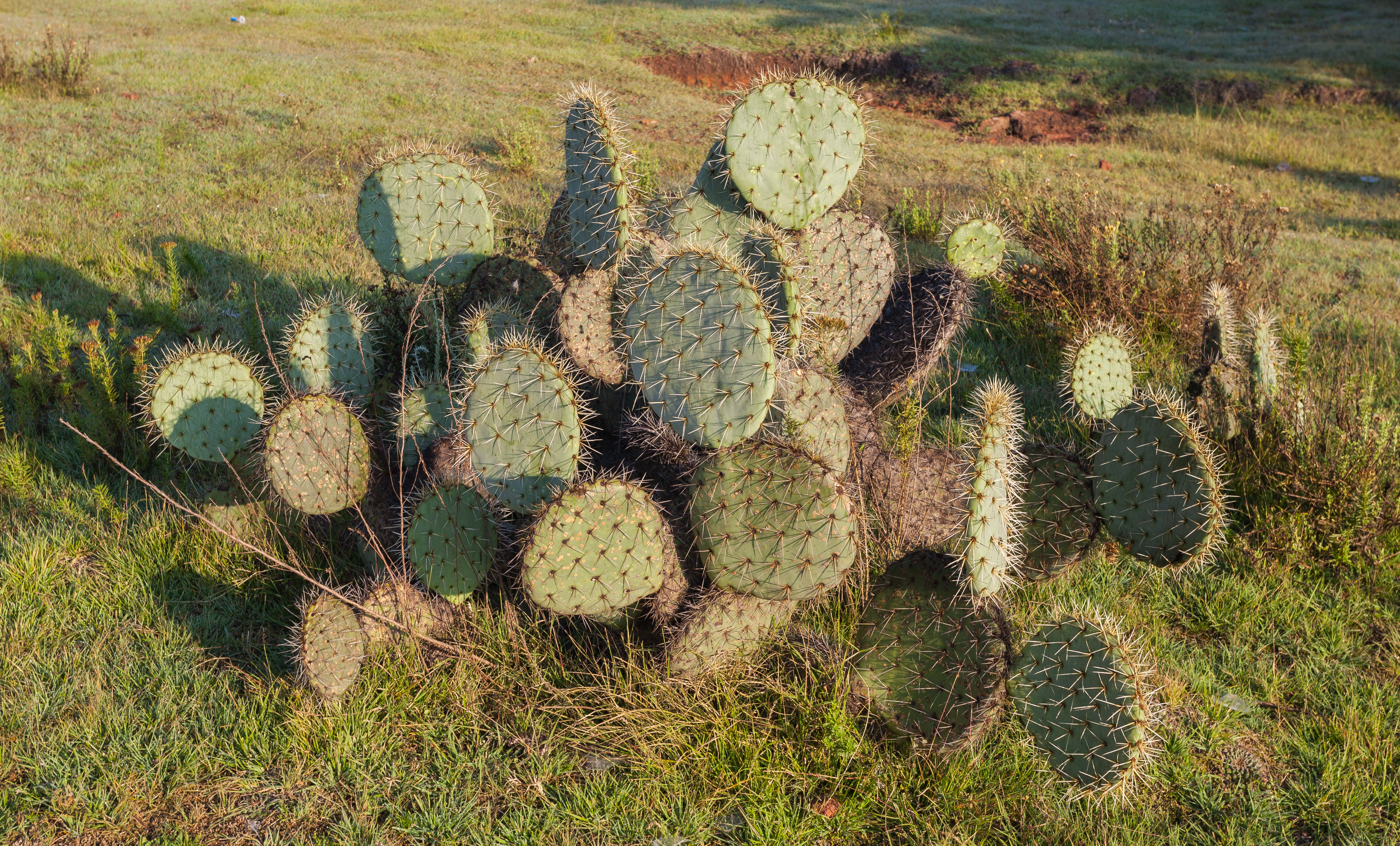 Cactus (Opuntia ficus-indica), Acatlan, Hidalgo, México